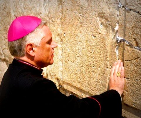 Mons. Oscar en el Muro de los Lamentos